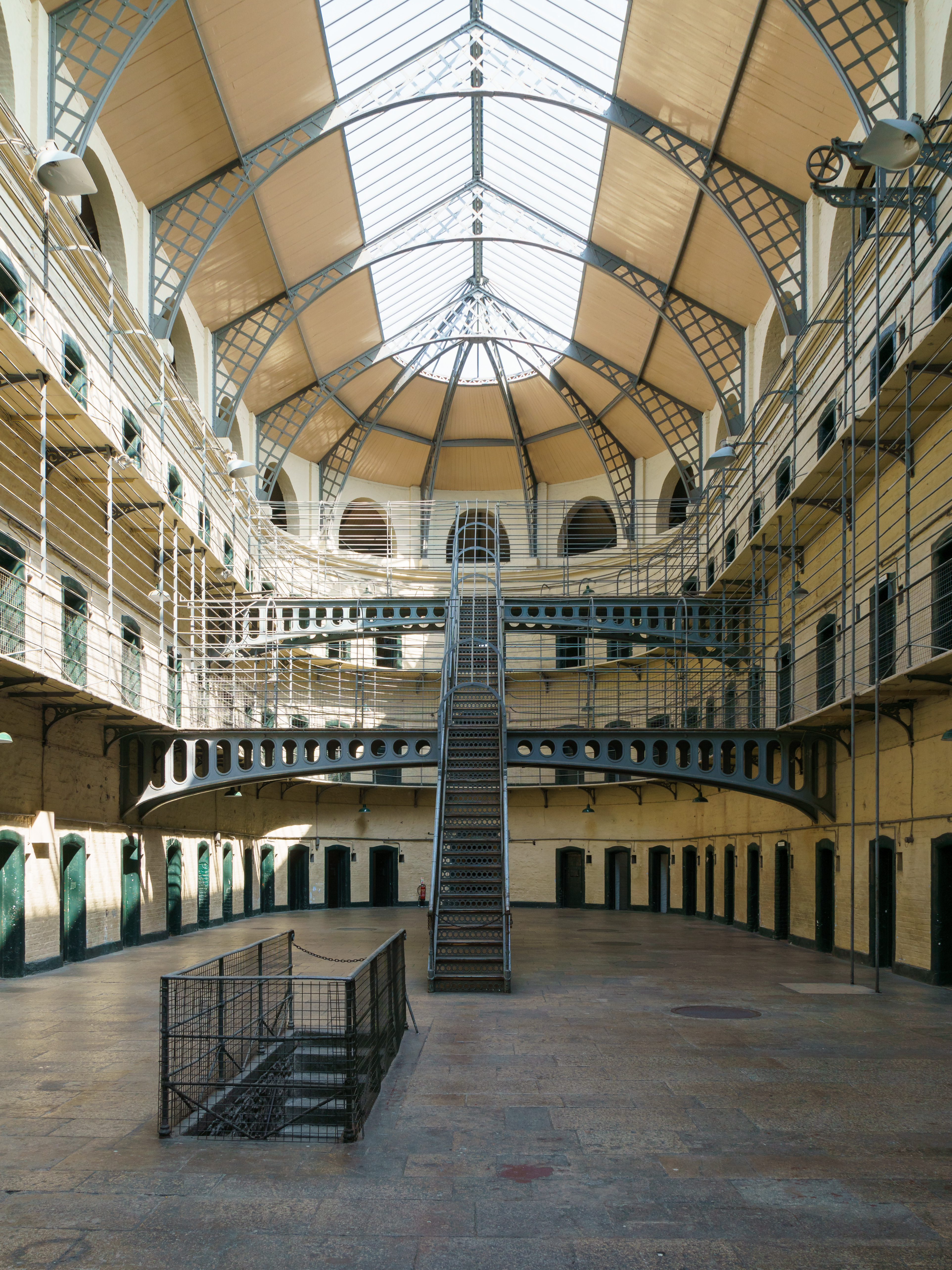 Kilmainham Gaol main hall. Many Irish revolutionaries, including the leaders of the 1916 Easter Rising, were imprisoned and executed in the prison by the British.